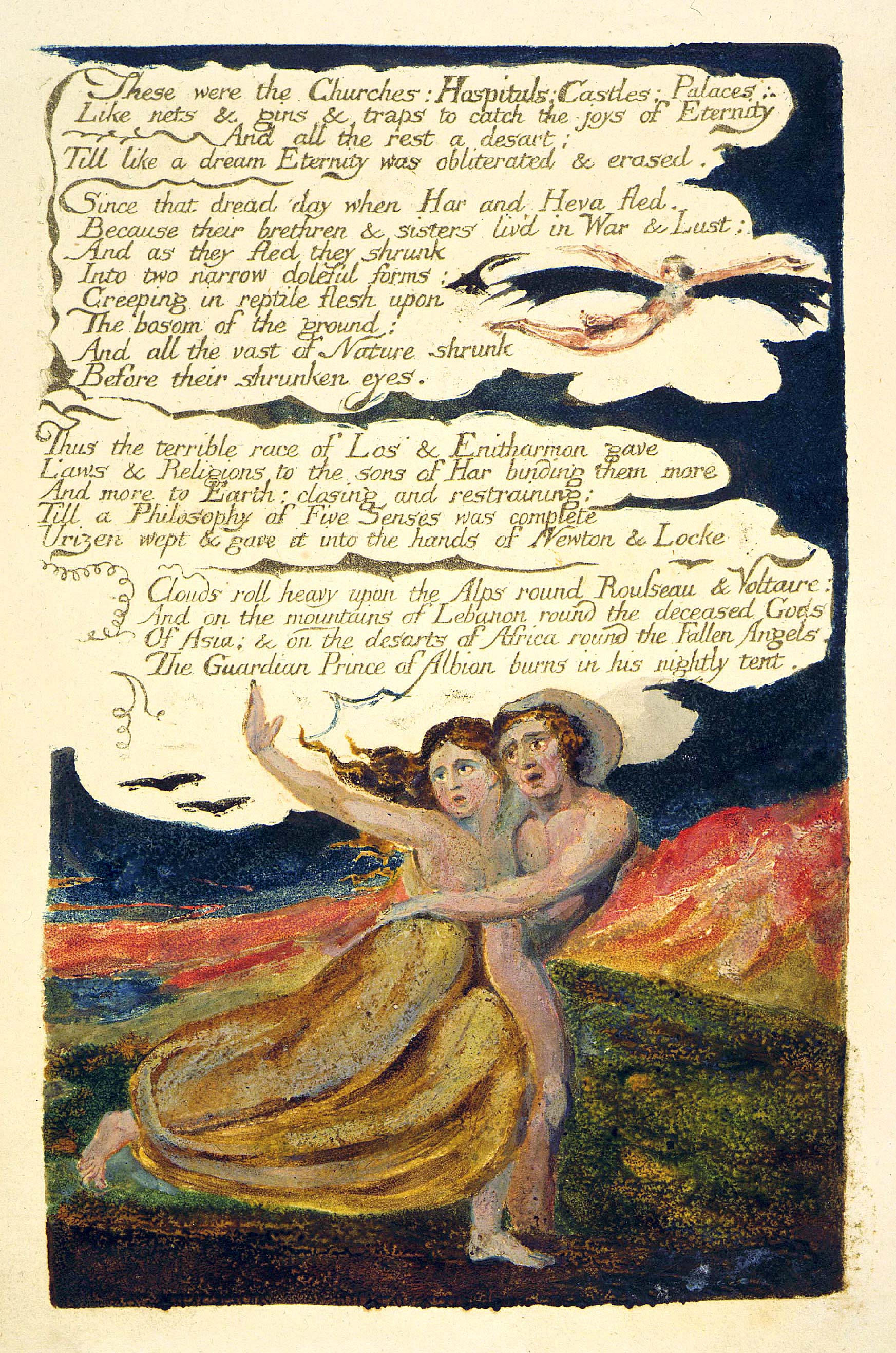 Plate 4 Copy A of William Blake's The Song of Los (1795).